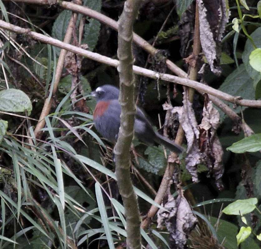 Maroon-chested chat-tyrant at Perú